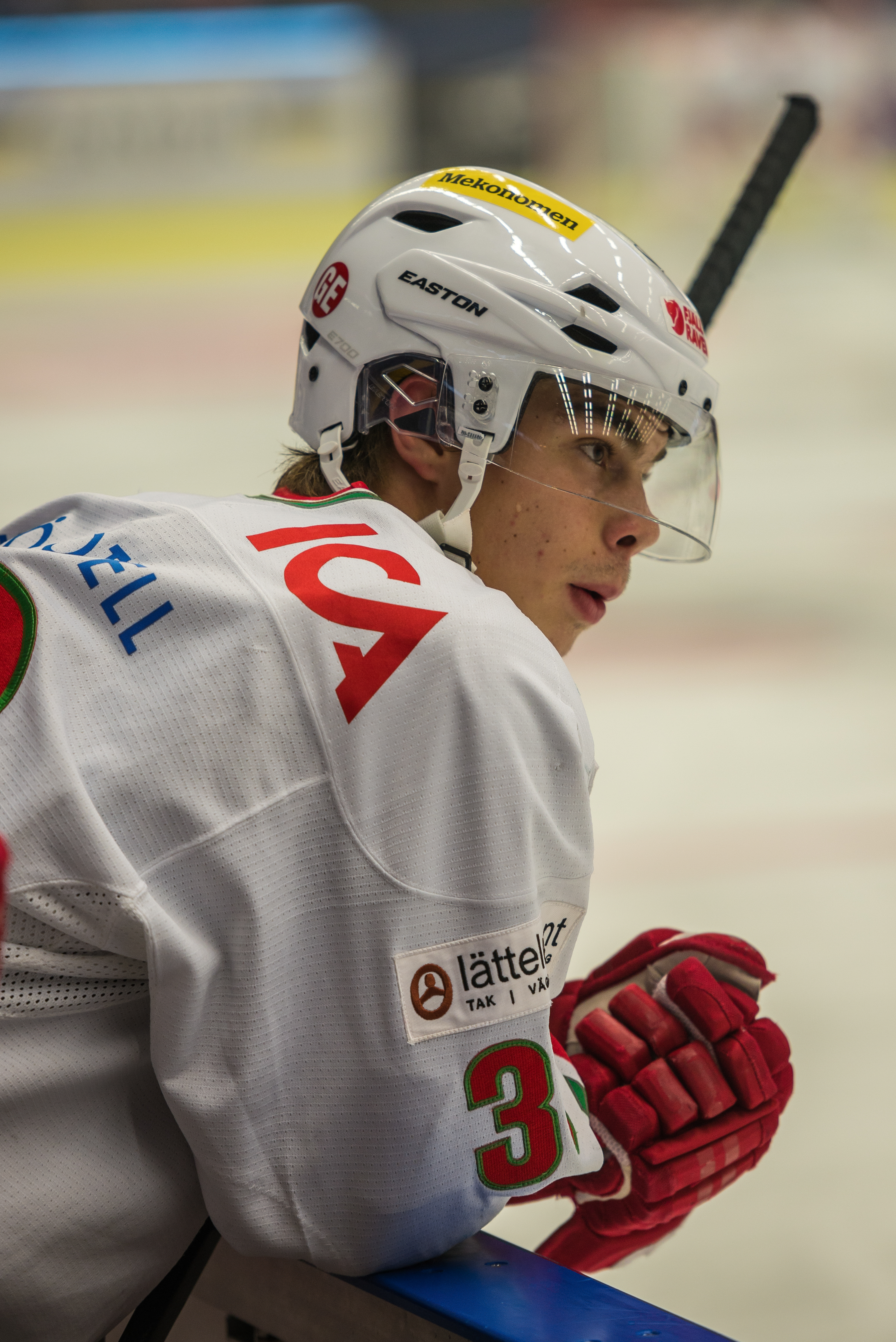 Gustav Possler playing for MODO Hockey in SHL (Sweden's highest league) against Örebro HK in Behrn Arena 2013-10-05.